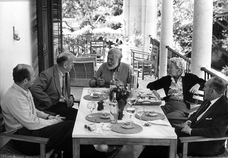 EH 2263S Luncheon at La Consula, Malaga, Spain, 1959. L-R: Bill Davis, Rupert Belleville, Ernest Hemingway, Mary Hemingway, Juan Quintana. Photograph in the Ernest Hemingway Photograph Collection, John F. Kennedy Presidential Library and Museum, Boston.